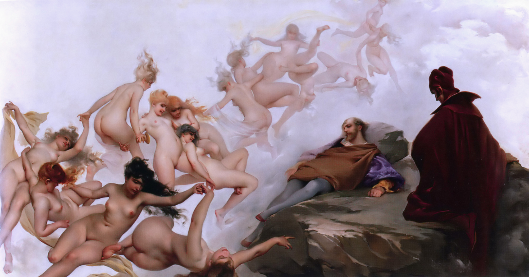 Faust’s vision oil on canvas 81.2 x 150.5 cm signed b.r.: Faléro 1880